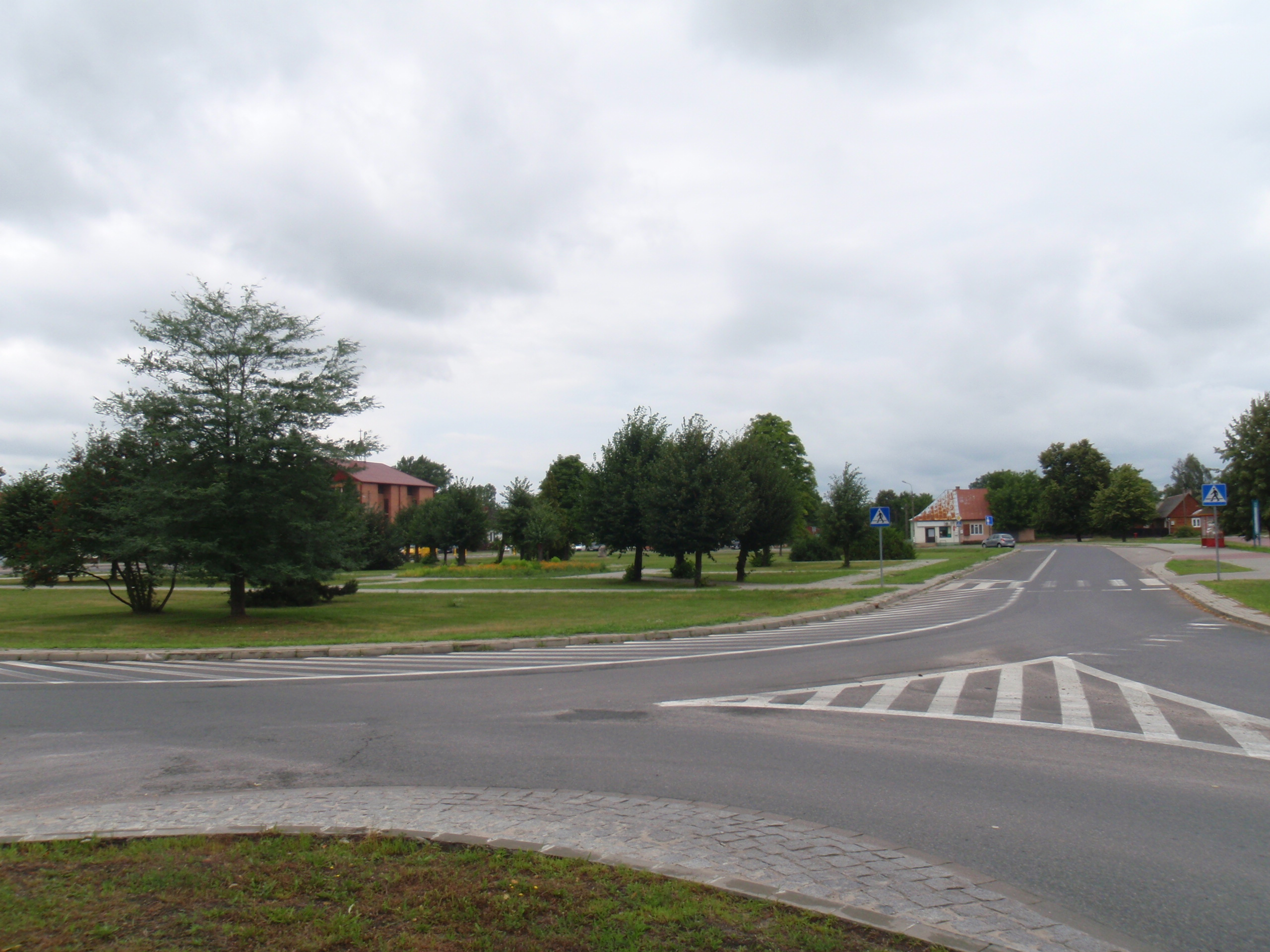 Marketsquare in Gniewoszów